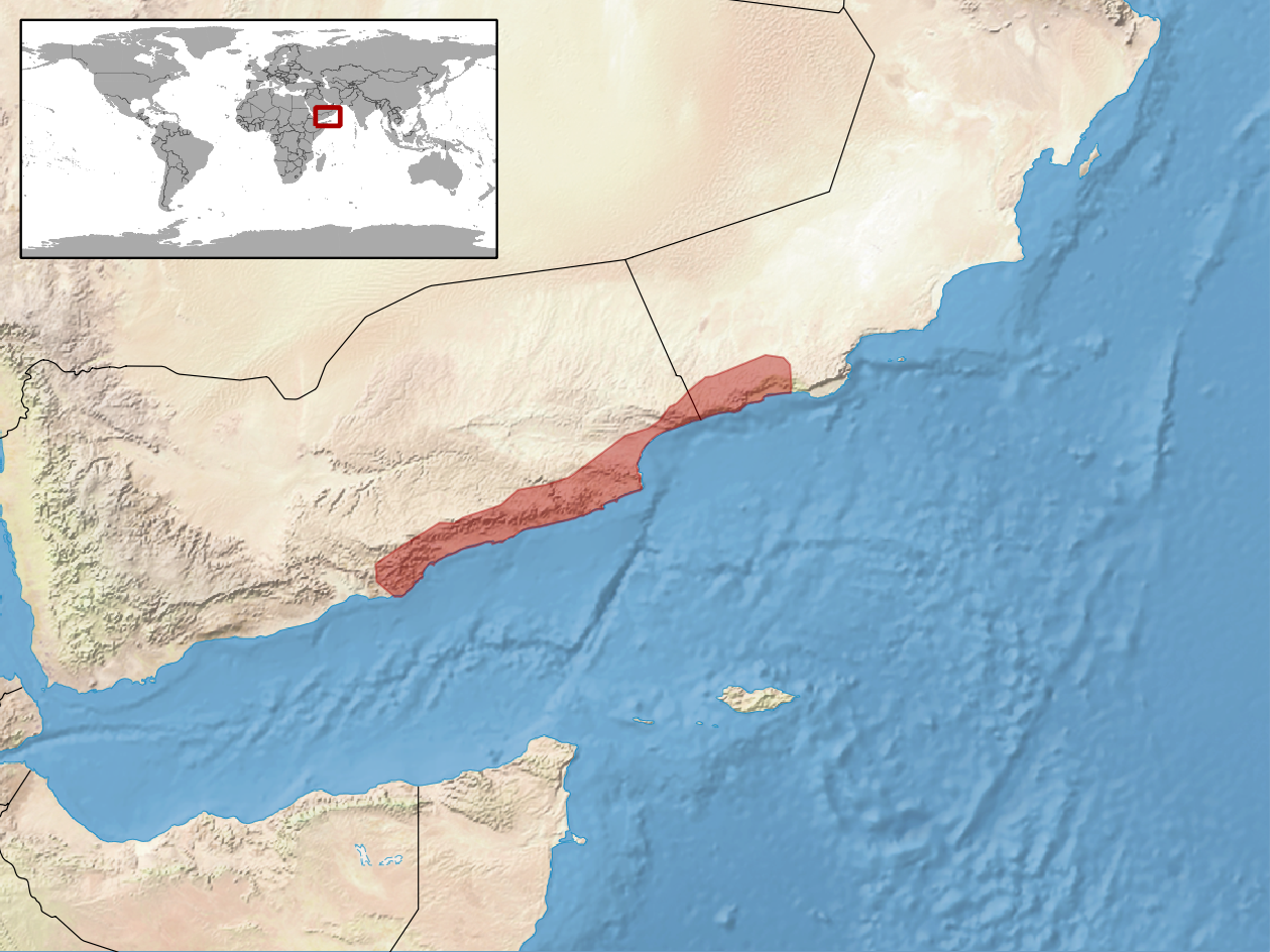 geographic distribution of Hemidactylus lemurinus (Native: Oman; Yemen)